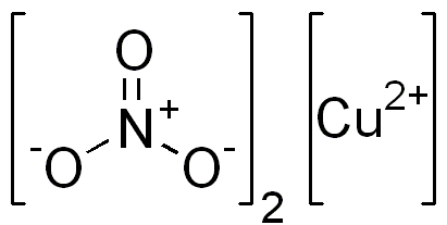 chemical structure of copper(II) nitrate